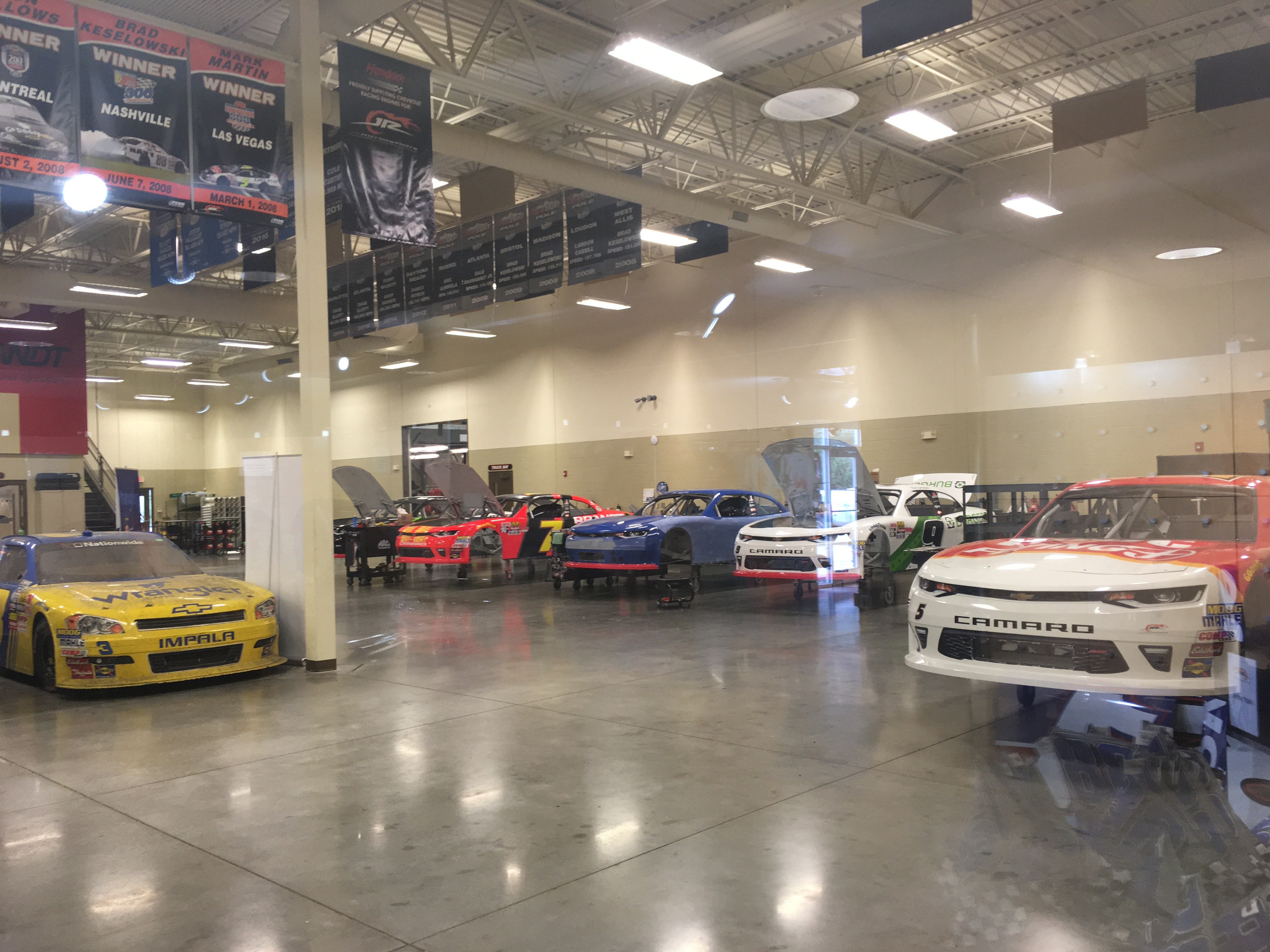 The shop floor of the JR Motorsports race shop in Mooresville, North Carolina